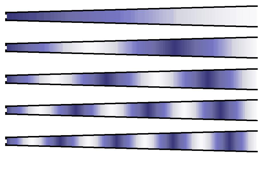 Standing Wave_Brass Instrument